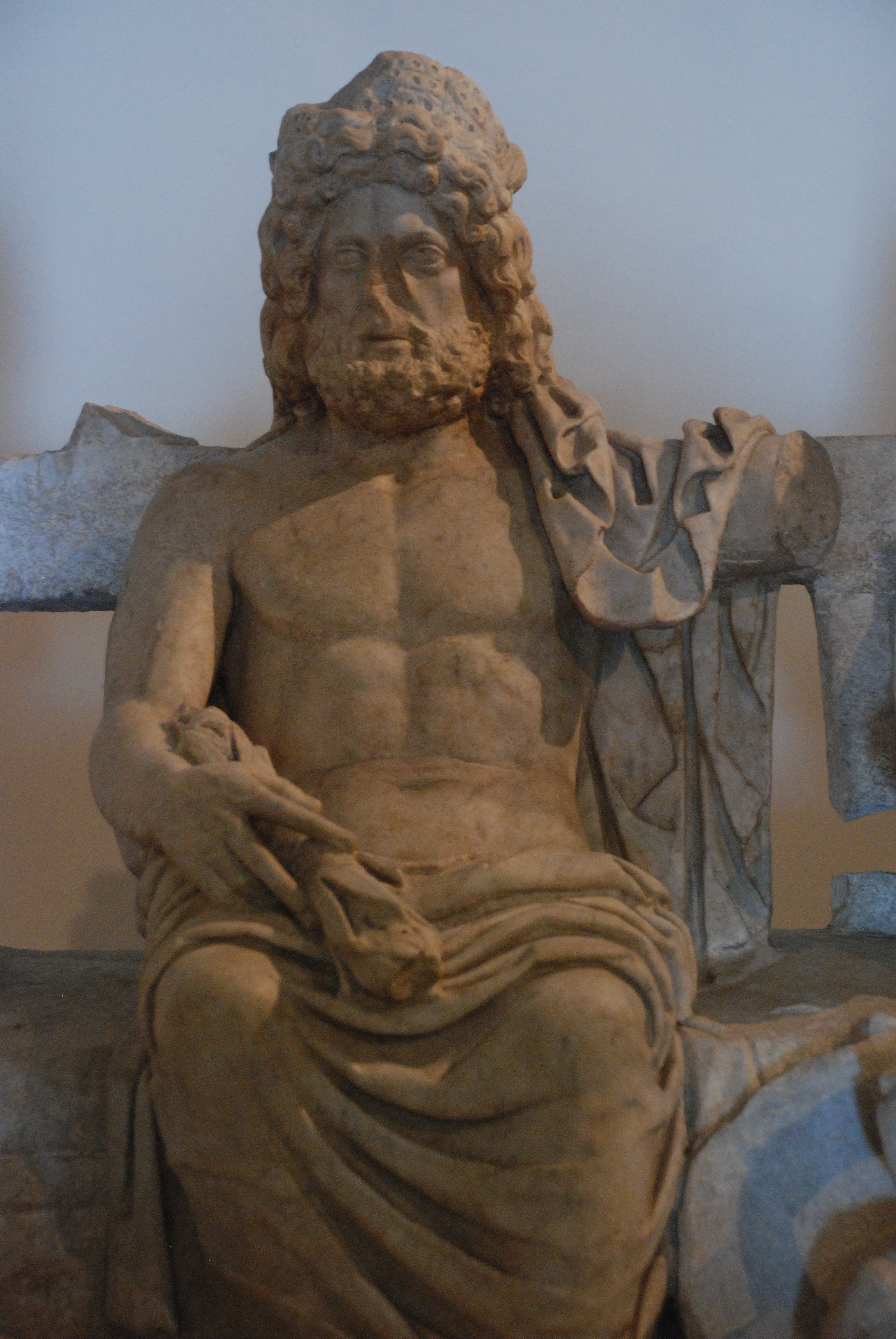 Jupiter, the center of The Capitoline Triad of Guidonia (dates back to the end of the second century AD) representing Jupiter, Juno and Minerva who are seated on the same ceremonial throne.